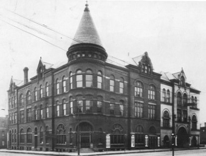 Central Turner Hall that was located on Washington Square in Davenport, Iowa. The building no longer exists.